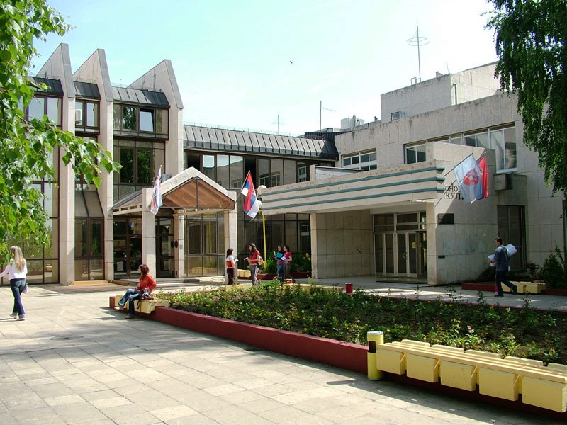 The University in Kragujevac